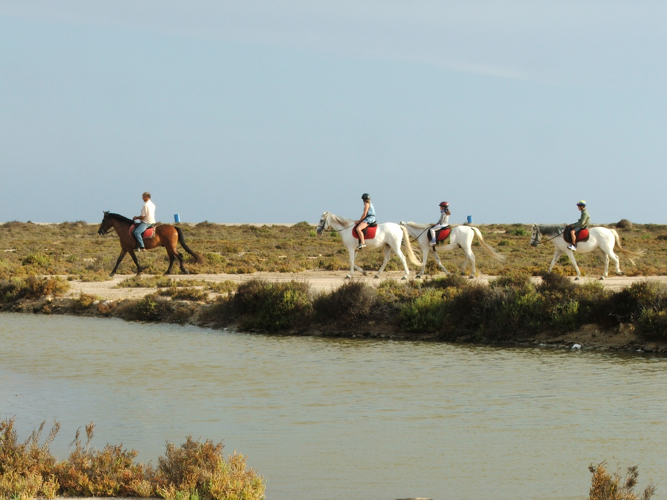 Punta Entinas-Sabinar wetland ride horses